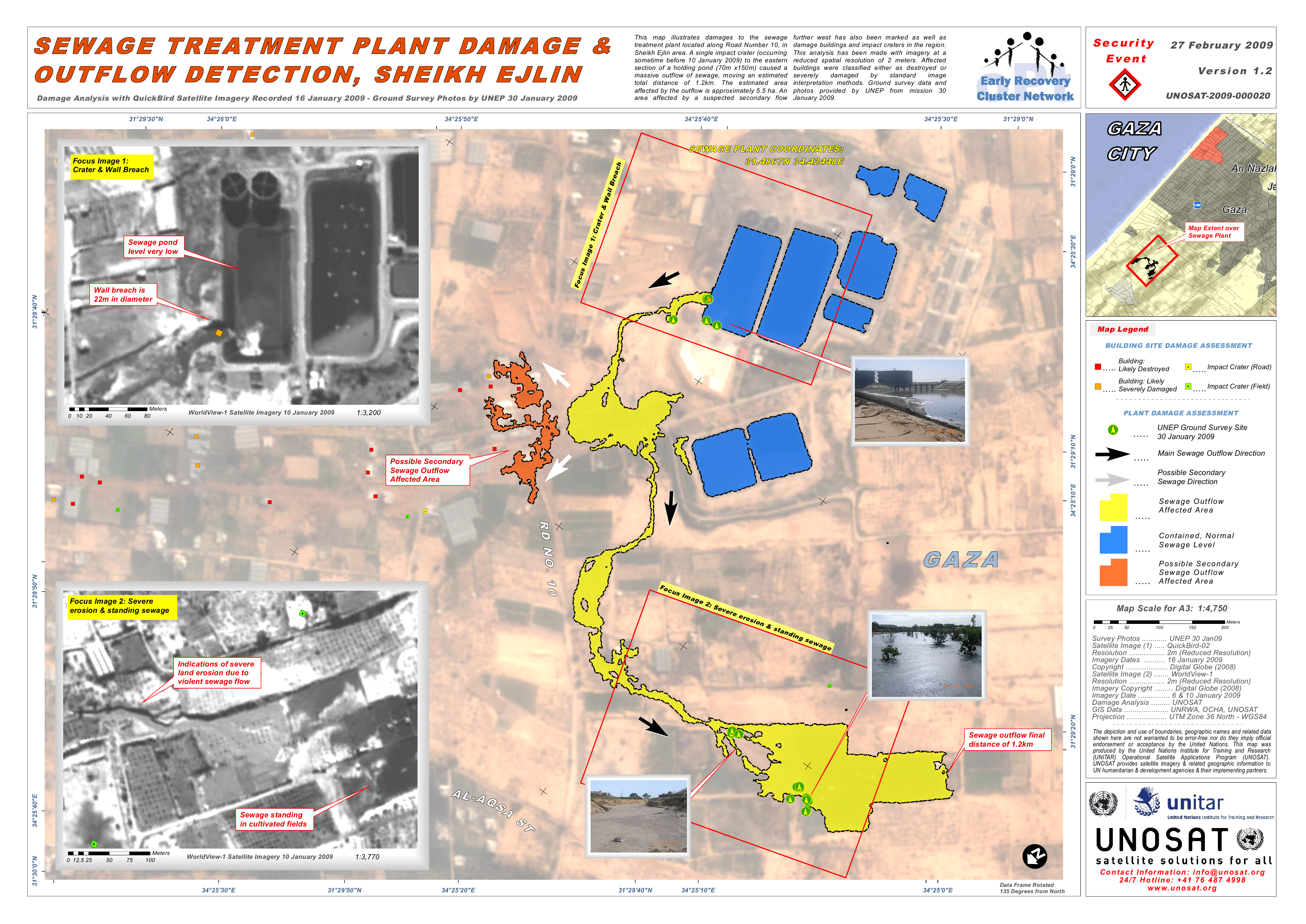 Sewage Treatment Plant Damage & Outflow Detection, Sheikh Ejlin Product ID: 1337 - English Published: 10 Mar, 2009 (Updated: 10 Mar, 2009) This map illustrates damages to the sewage treatment plant located along Road Number 10, in Sheikh Ejlin area. A single impact crater (occurring sometime before 10 January 2009) to the eastern section of a holding pond (70m x150m) caused a massive outflow of sewage, moving an estimated total distance of 1.2km. The estimated area affected by the outflow is approximately 5.5 ha. An area affected by a suspected secondary flow further west has also been marked as well as damage buildings and impact craters in the region. This analysis has been made with imagery at a reduced spatial resolution of 2 meters. Affected buildings were classified either as destroyed or severely damaged by standard image interpretation methods. Ground survey data and photos provided by UNEP from mission 30 January 2009. Source(s): Survey Photos: UNEP 30 Jan09 Satellite Image (1): QuickBird-02 Resolution: 2m (Reduced Resolution) Imagery Dates: 16 January 2009 Copyright: Digital Globe (2008) Satellite Image (2): WorldView-1 Resolution: 2m (Reduced Resolution) Imagery Copyright: Digital Globe (2008) Imagery Date: 6 & 10 January 2009 Damage Analysis: UNOSAT GIS Data: UNRWA, OCHA, UNOSAT Note: Conversion from PDF to SVG using Inkscape produced errors. Arrows were handed as text but converted to F chars.